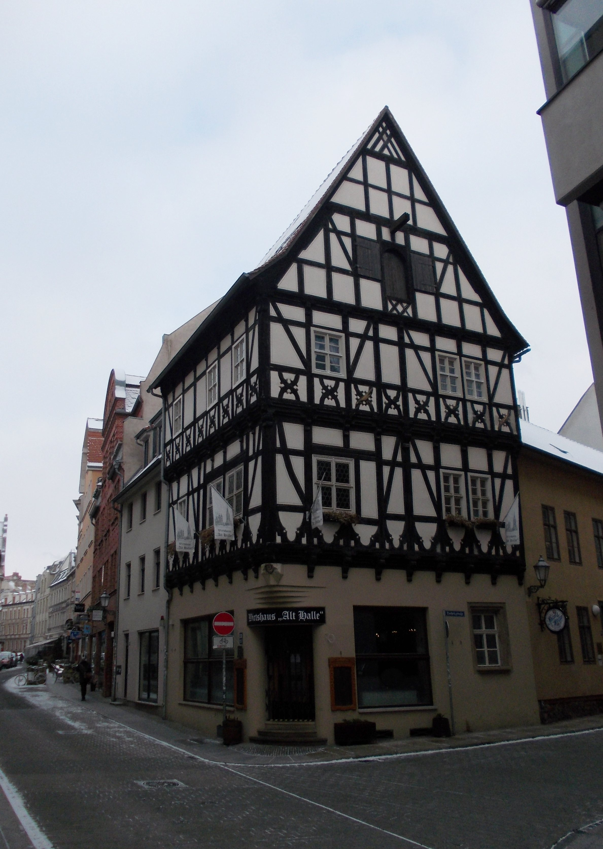 No. 32/33 of Kleine Ulrichstrasse in Halle/Saale (Saxony-Anhalt)